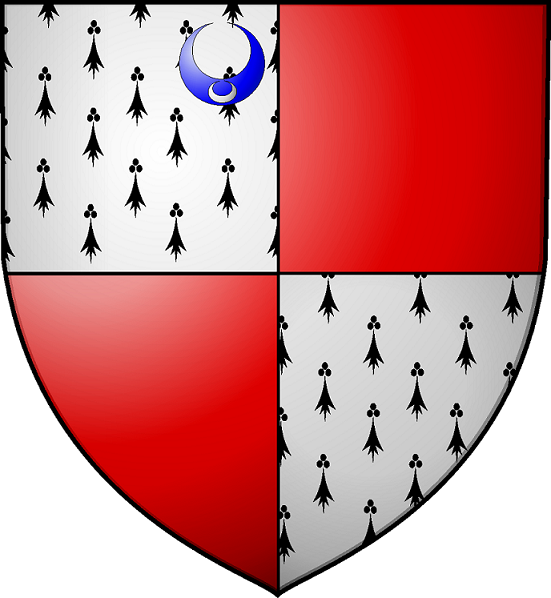 Stanhope, Earl of Harrington CoA